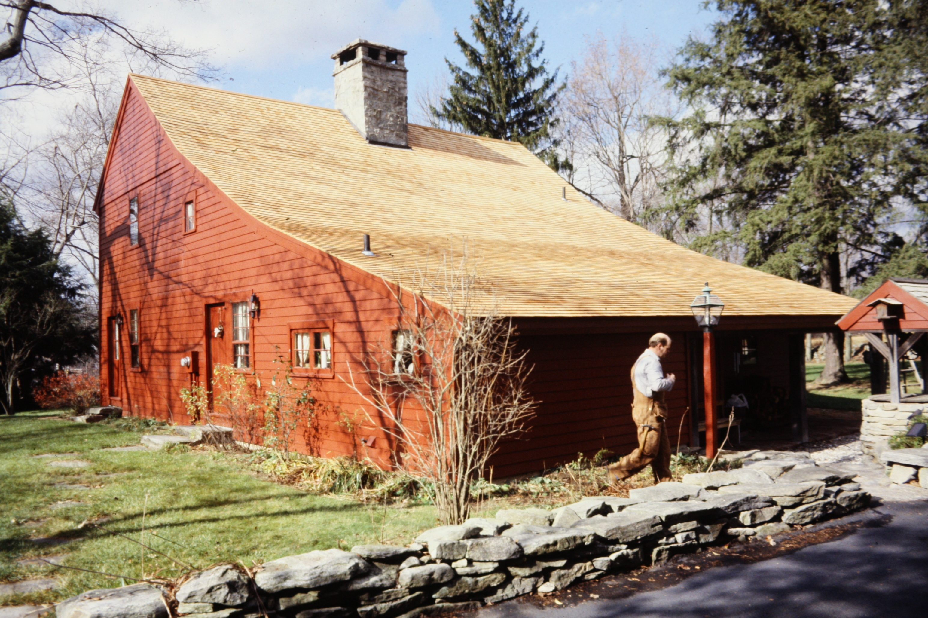 Image of Thomas Hawley House Monroe, Connecticut rear view saltbox roof